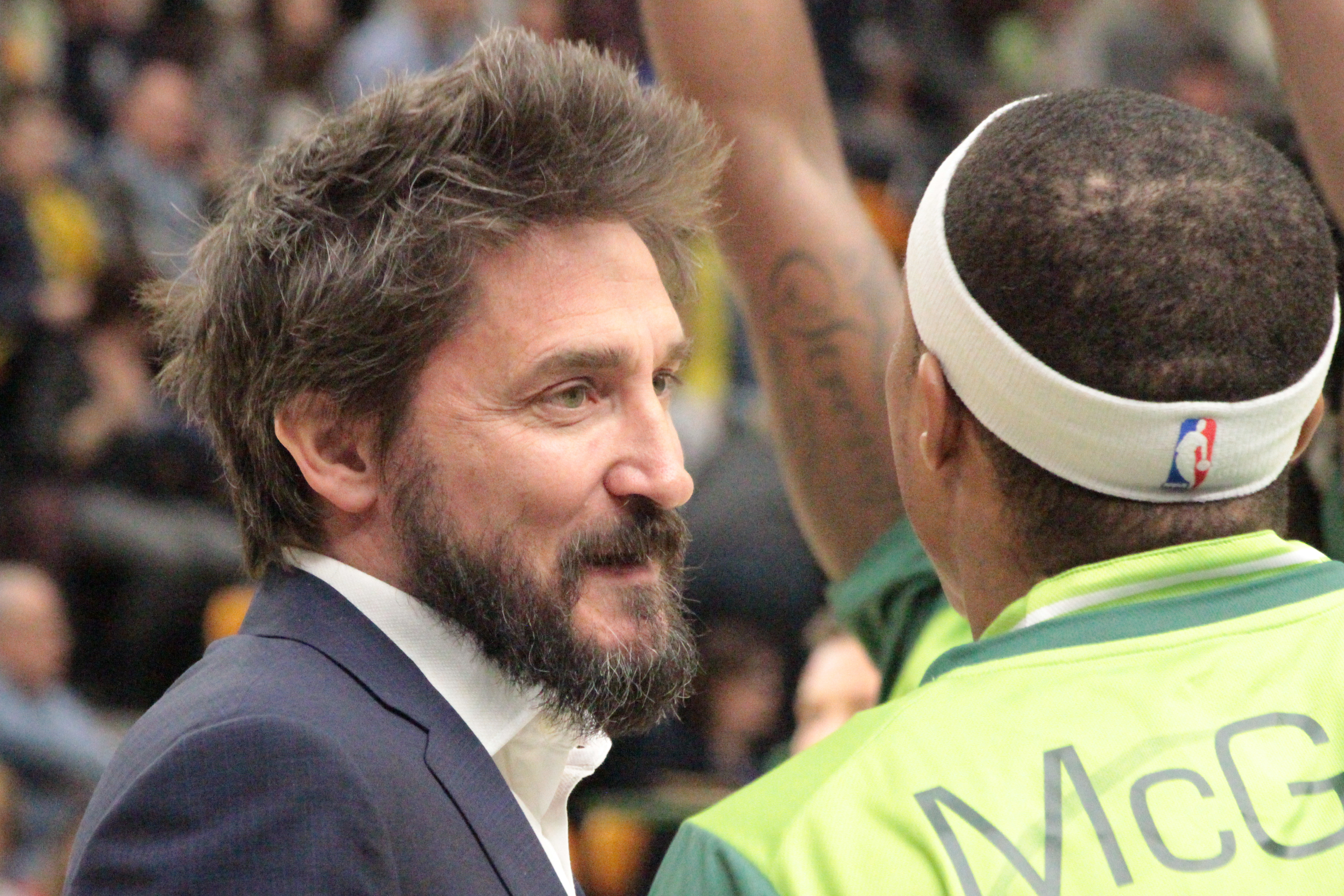 Gianmarco Pozzecco, coach of Dinamo Sassari basketball team, talking with Tyrus McGee in the final ofe Fiba Europe Cup